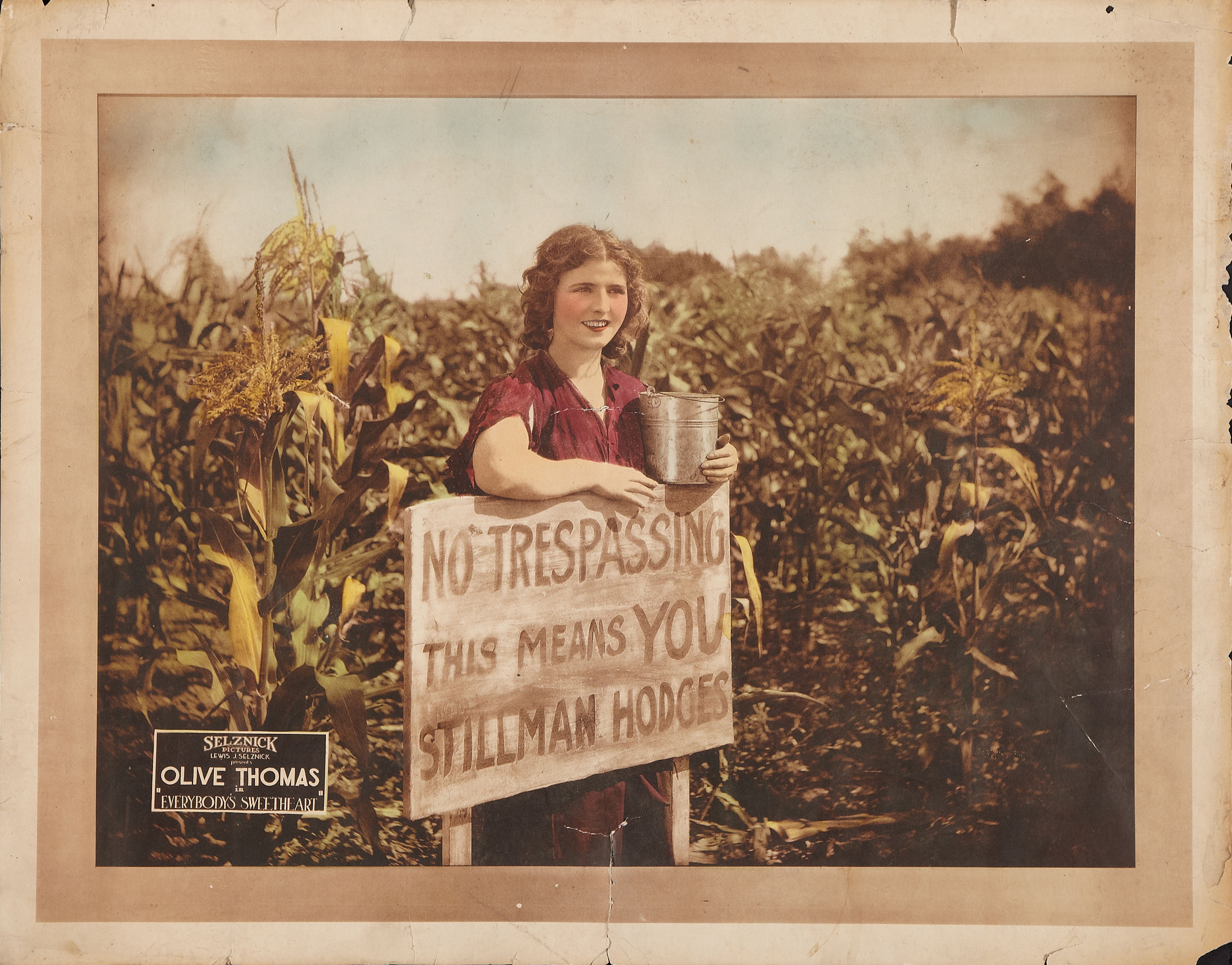 Poster for the 1920 film, Everybody's Sweetheart, starring Olive Thomas